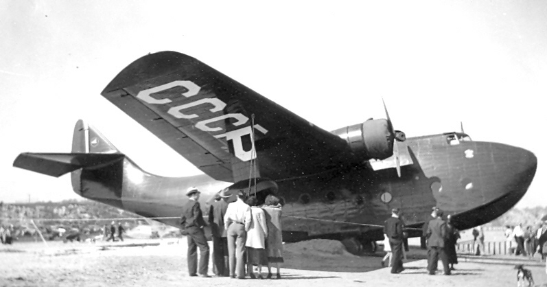 At San Pedro, CA in February 1937.